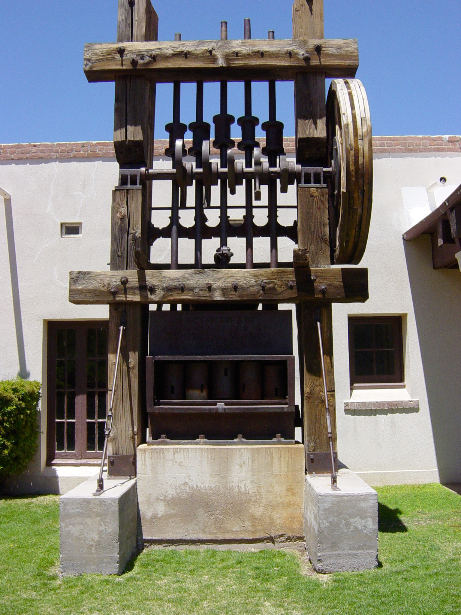 Image taken and uploaded by User:Leonard G.. Five stamp mill for crushing ore, located at the Jerome, Arizona Mining Museum. thumb|right|200px|Detail showing offset cams to rotate lifters for even wear on this particular type